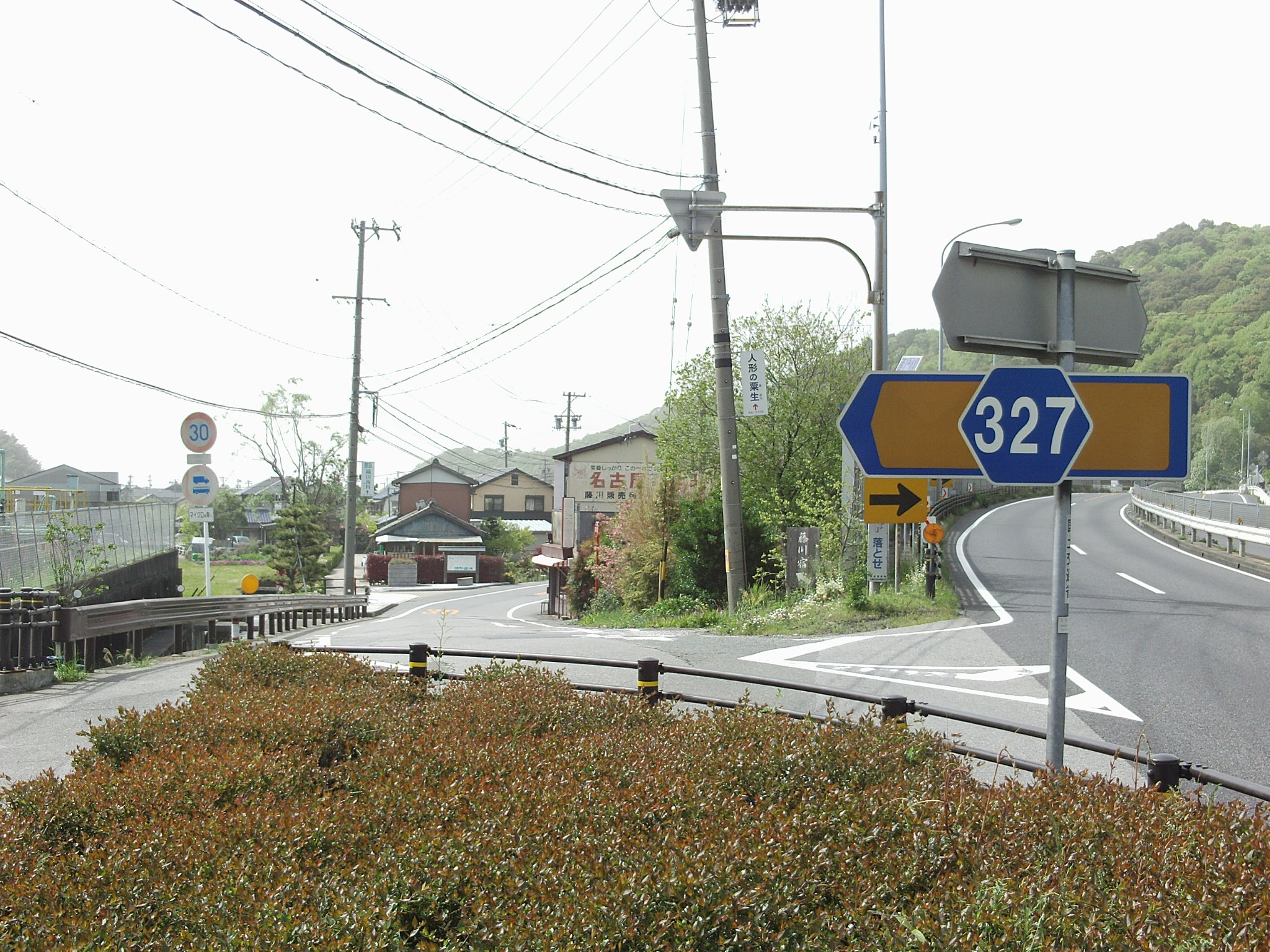 Aichi prefectural road No.327 in Ichibacho, Okazaki, Aichi.